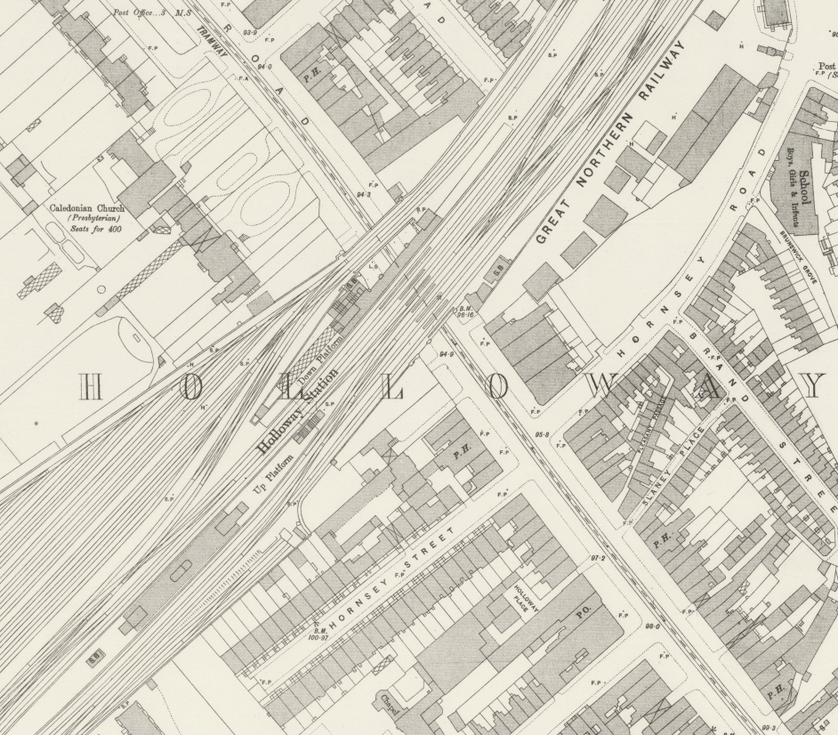 Holloway and Caledonian Road railway station, Holloway, London.